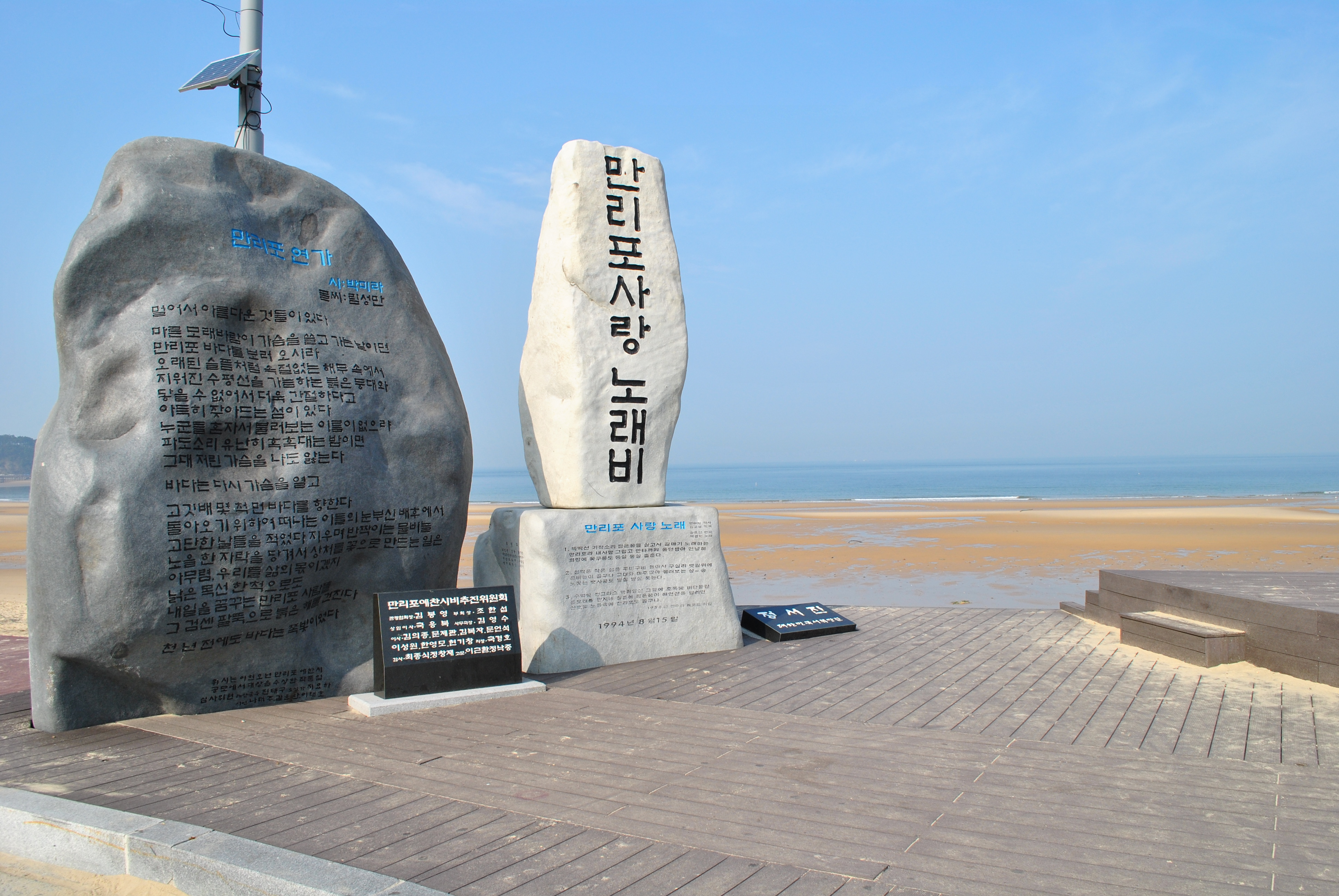 Manripo beach at Taean, Chungcheongnam-do, South Korea